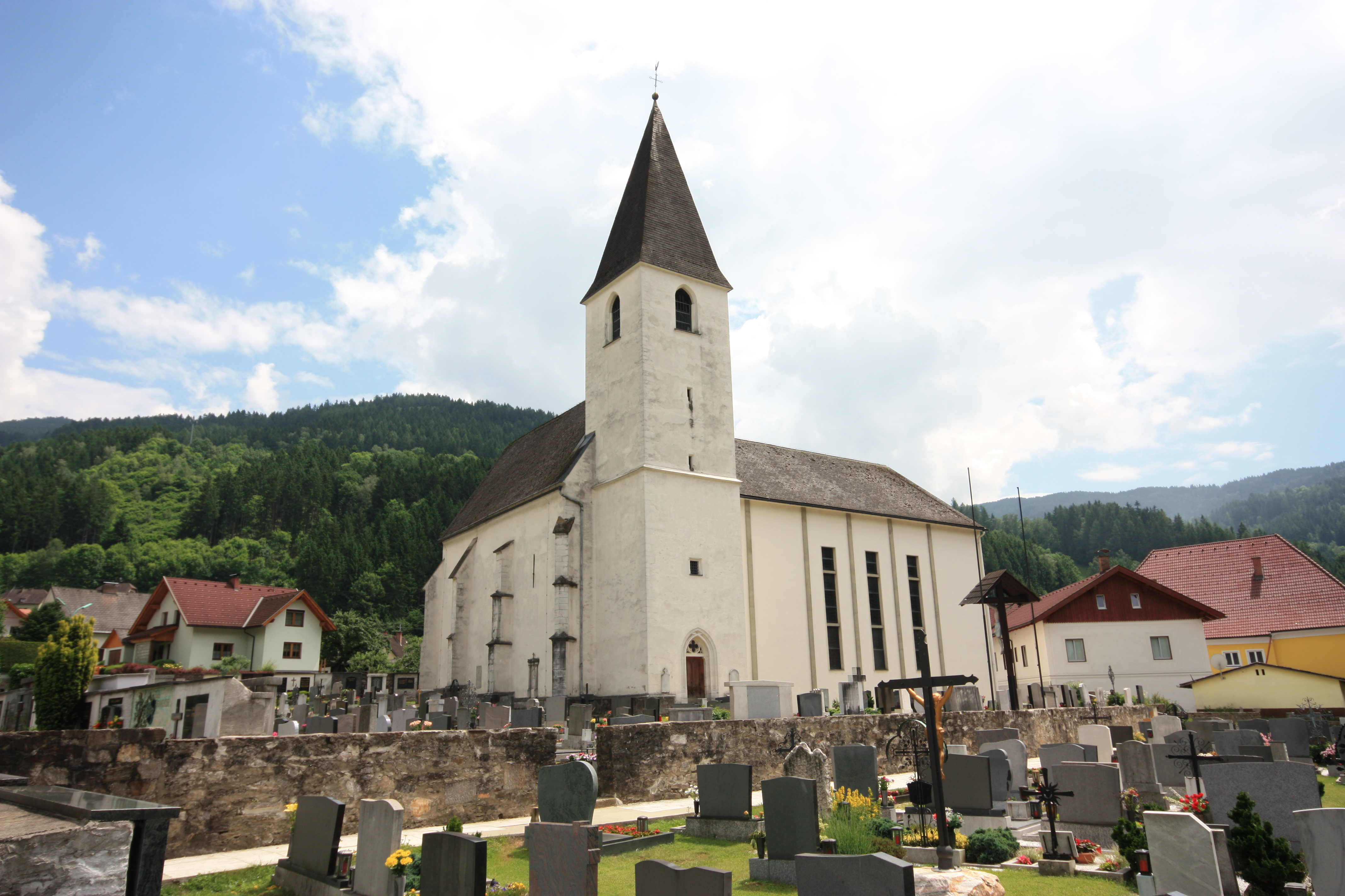 Parish-church in Frantschach-St Gertraud, Carinthia